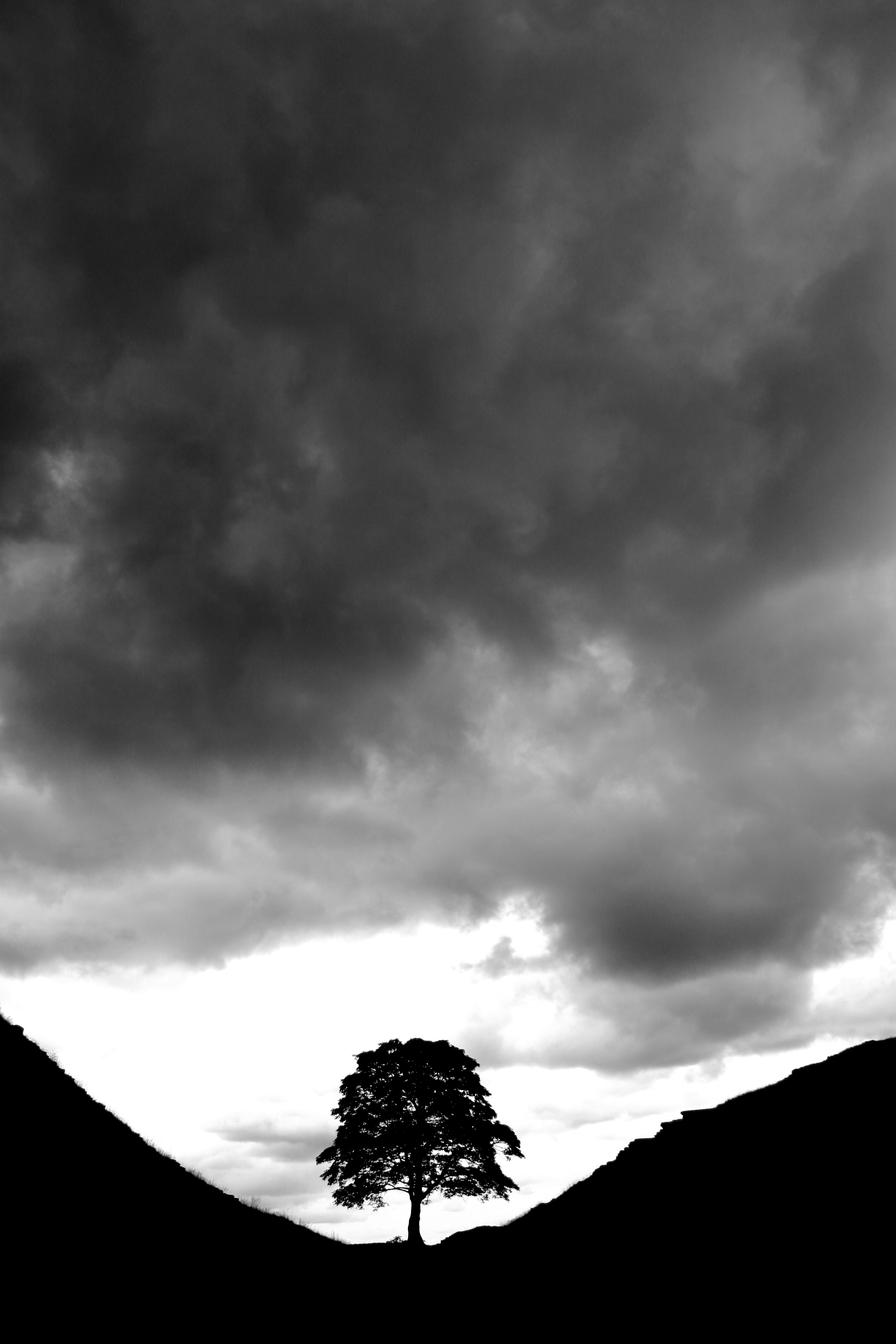 A tree on Hadrian's Wall (Sycamore Gap) in Northumberland, UK. This is the tree from the Robin Hood 1991 movie.